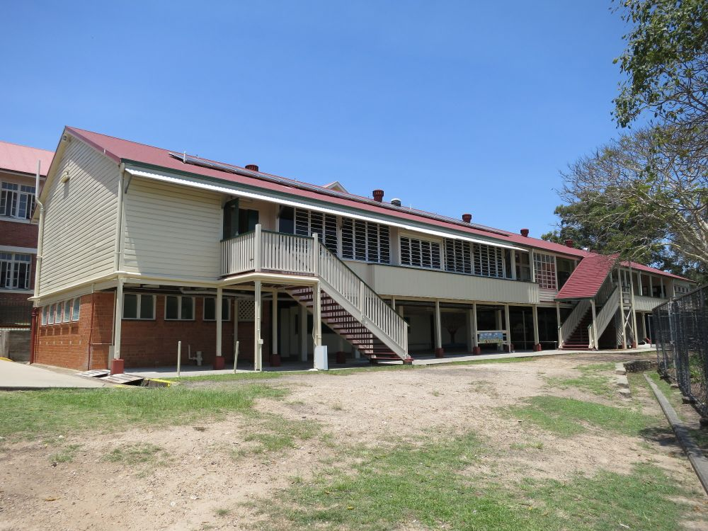 Block B, northern elevation (2015)